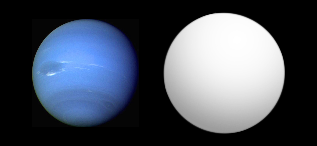 Comparison of best-fit size of the exoplanet Kepler-11 e with the Solar System planet Neptune, as reported in the Open Exoplanet Catalogue[1] as of 2010-09-30. ↑ Open Exoplanet Catalogue (2010-09-30). Retrieved on 2010-09-30.